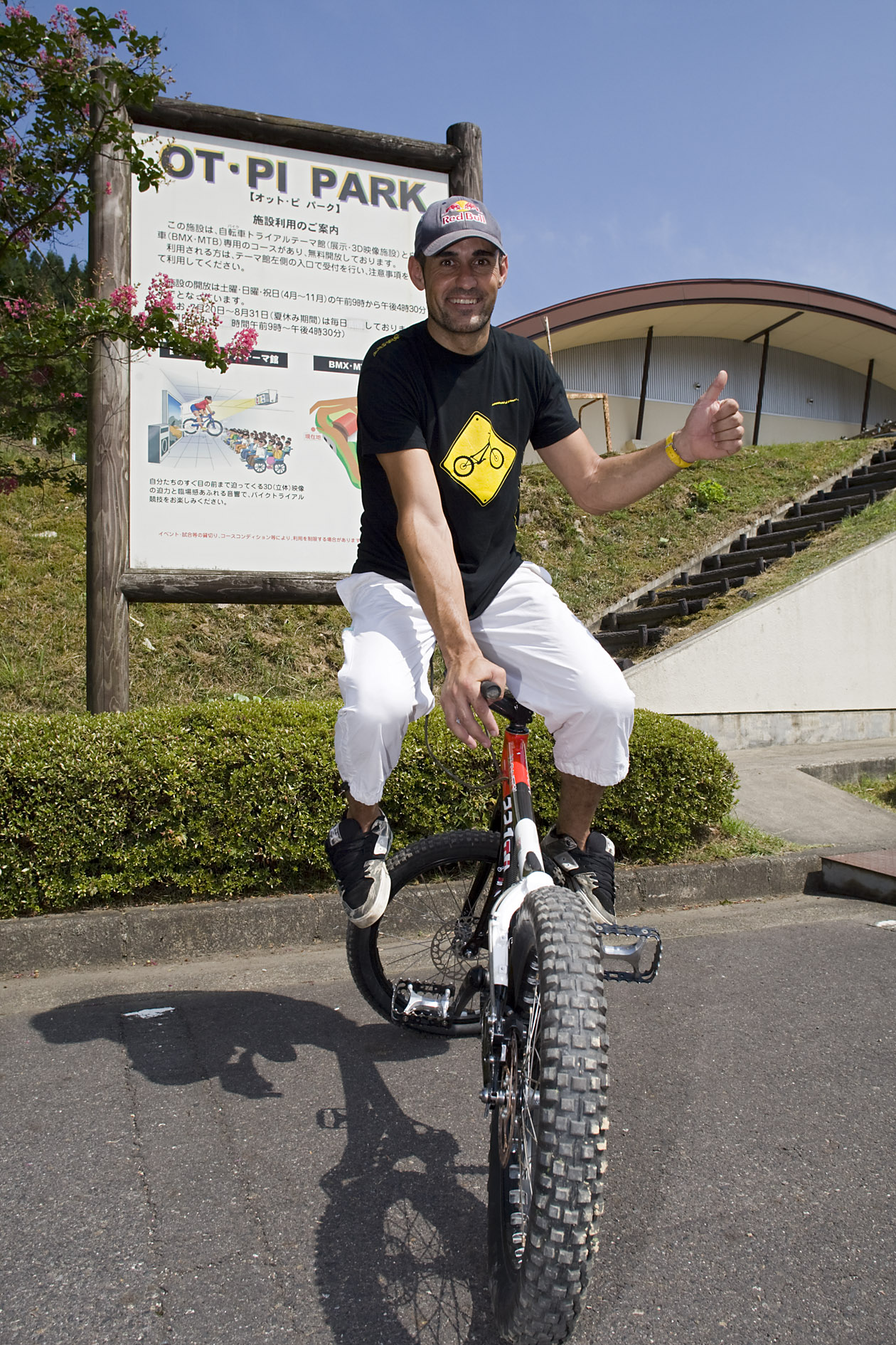 Museu & Park ot pi